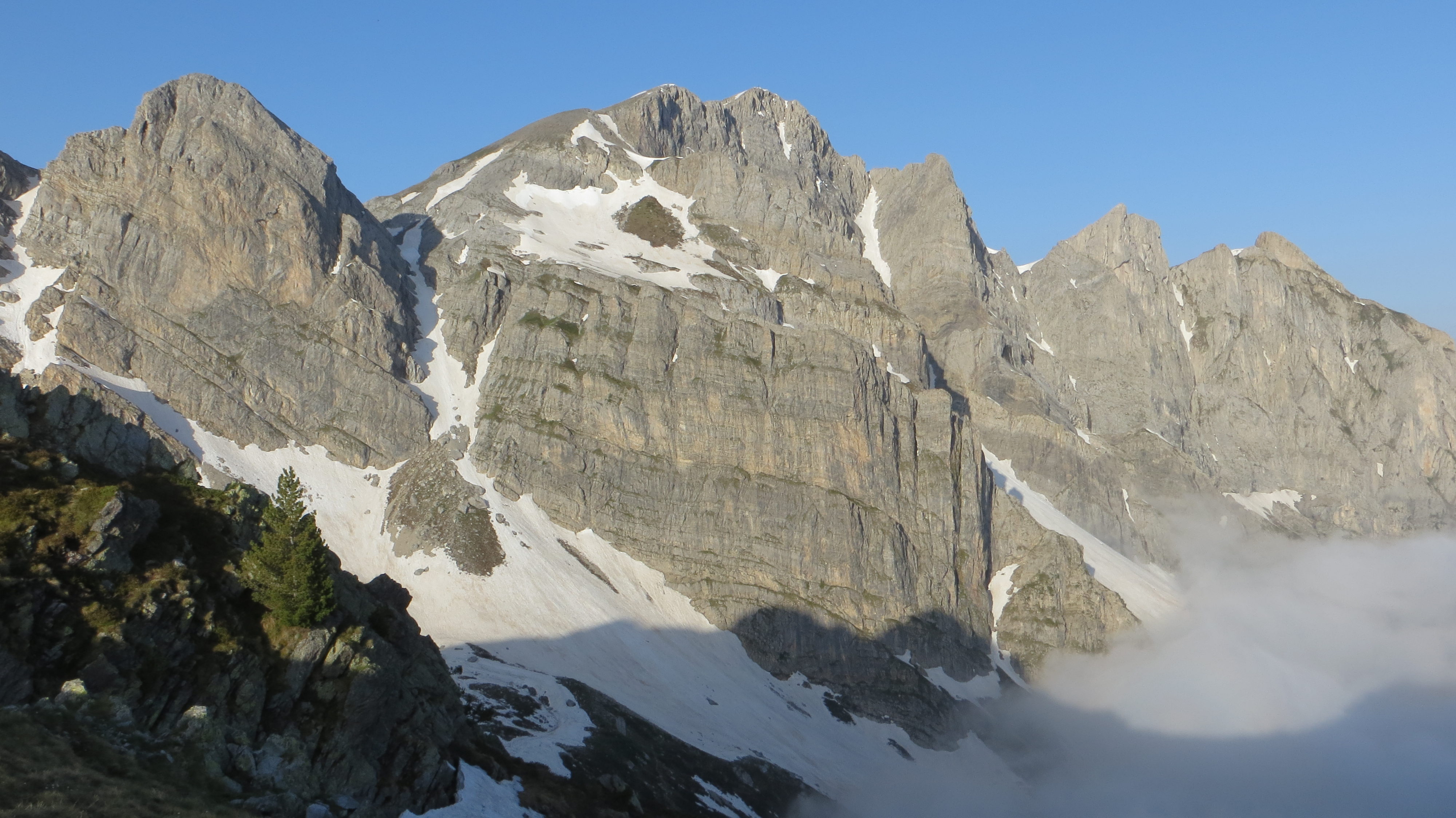 Punta Marguareis (northface)